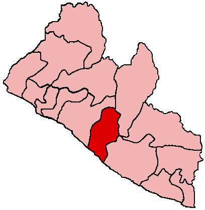 Map of Liberia showing Rivercess County; created with the GIMP. Made by User:Acntx.